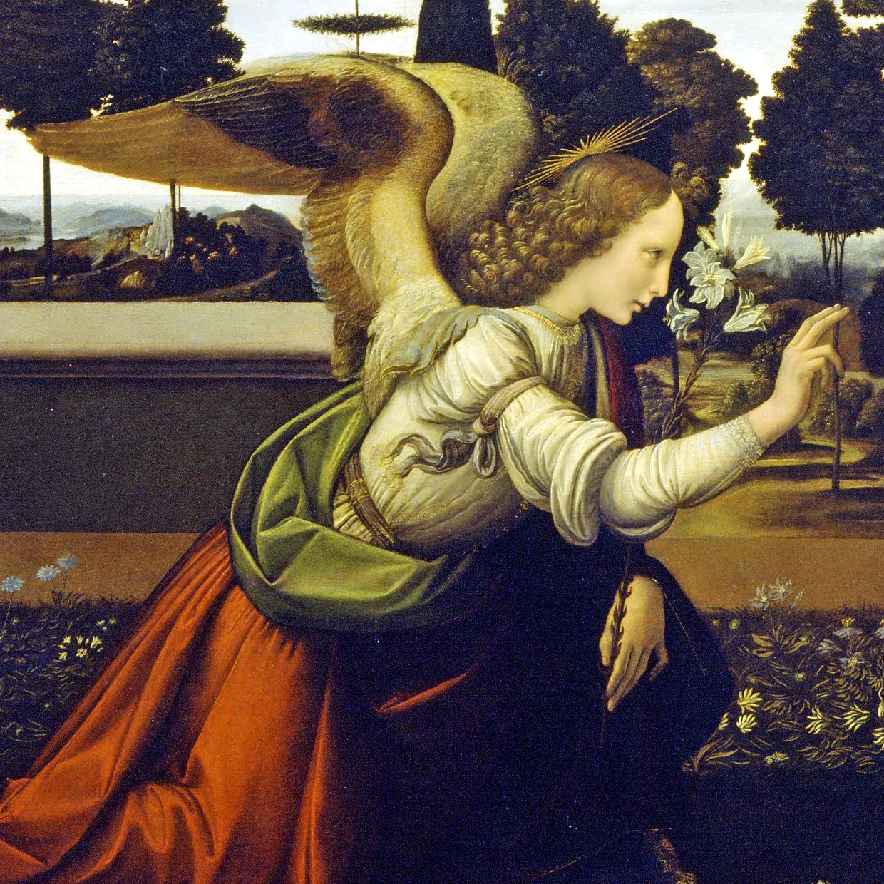 Leonardo Da Vinci - Annunciazione angel crop Leonardo da Vinci (1452–1519) Alternative namesLeonardo di ser Piero da VinciDescription Italian painter, draughtsman, inventor and writer Date of birth/death15 April 14522 May 1519Location of birth/deathVinci near Florence, TuscanyClos Lucé, FranceWork periodfrom 1466 until 1519Work locationFlorence (1466–1482), Milan (1483–1499), Mantua (1499), Venice (1500), Florence (1500–1506), Milan (1506–1513), Florence (1507–1508), Rome (1513–1516), Amboise (1513–1518)Authority control VIAF: 24604287 LCCN: n79034525 GND: 118640445 SELIBR: 207435 BnF: cb11912491s SUDOC: 085975915 ULAN: 500010879 ISNI: 000000012124423X WorldCat WP-Person